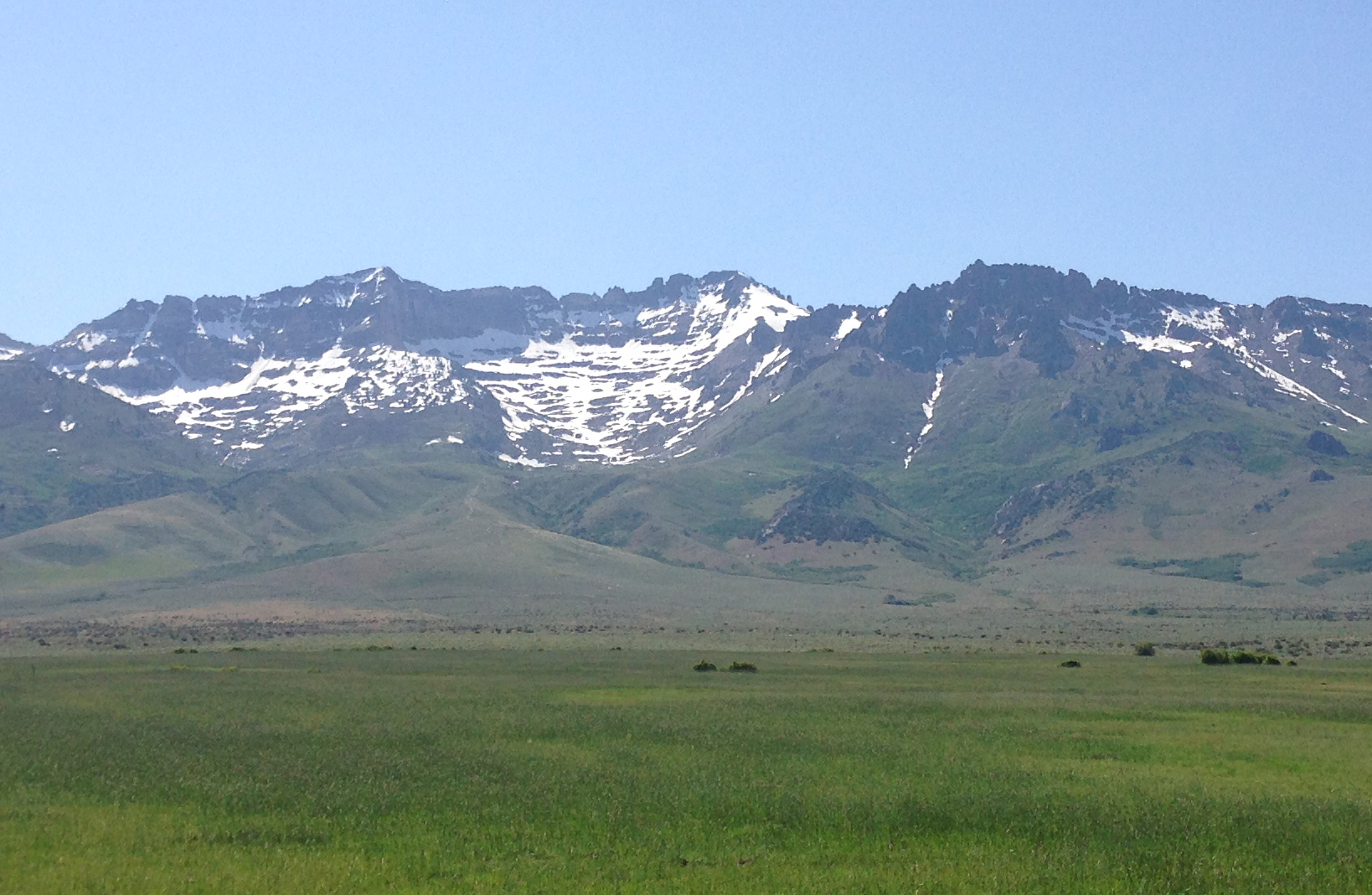 View west towards Hole in the Mountain Peak from Nevada State Route 232 (Clover Valley Road) 6.1 miles north of the southern terminus in Clover Valley, Nevada-cropped